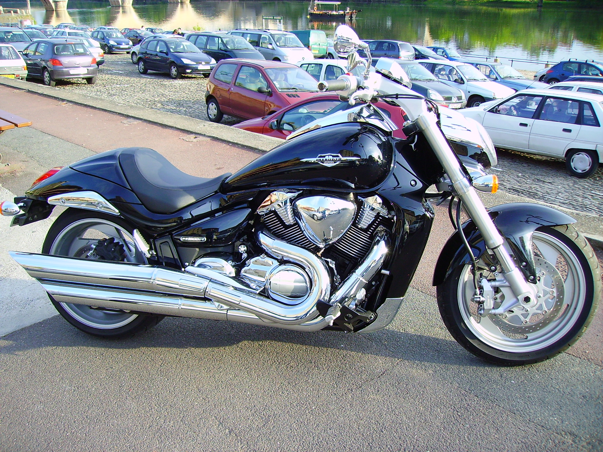 Suzuki Intruder M1800R. Location: Salvette bank (along the Dordogne River) in Bergerac, Dordogne, France.